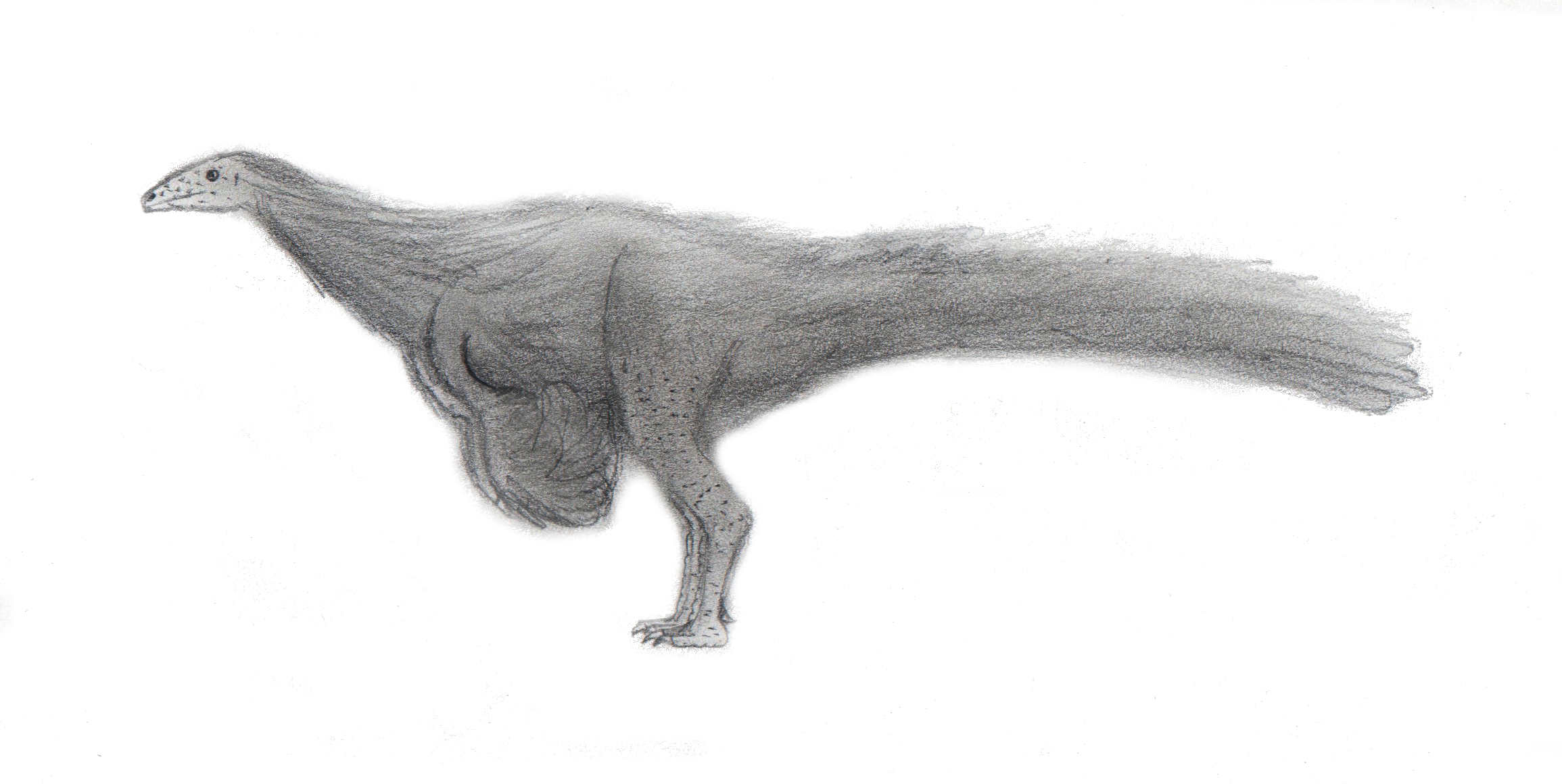 Life restoration of Nqwebasaurus.